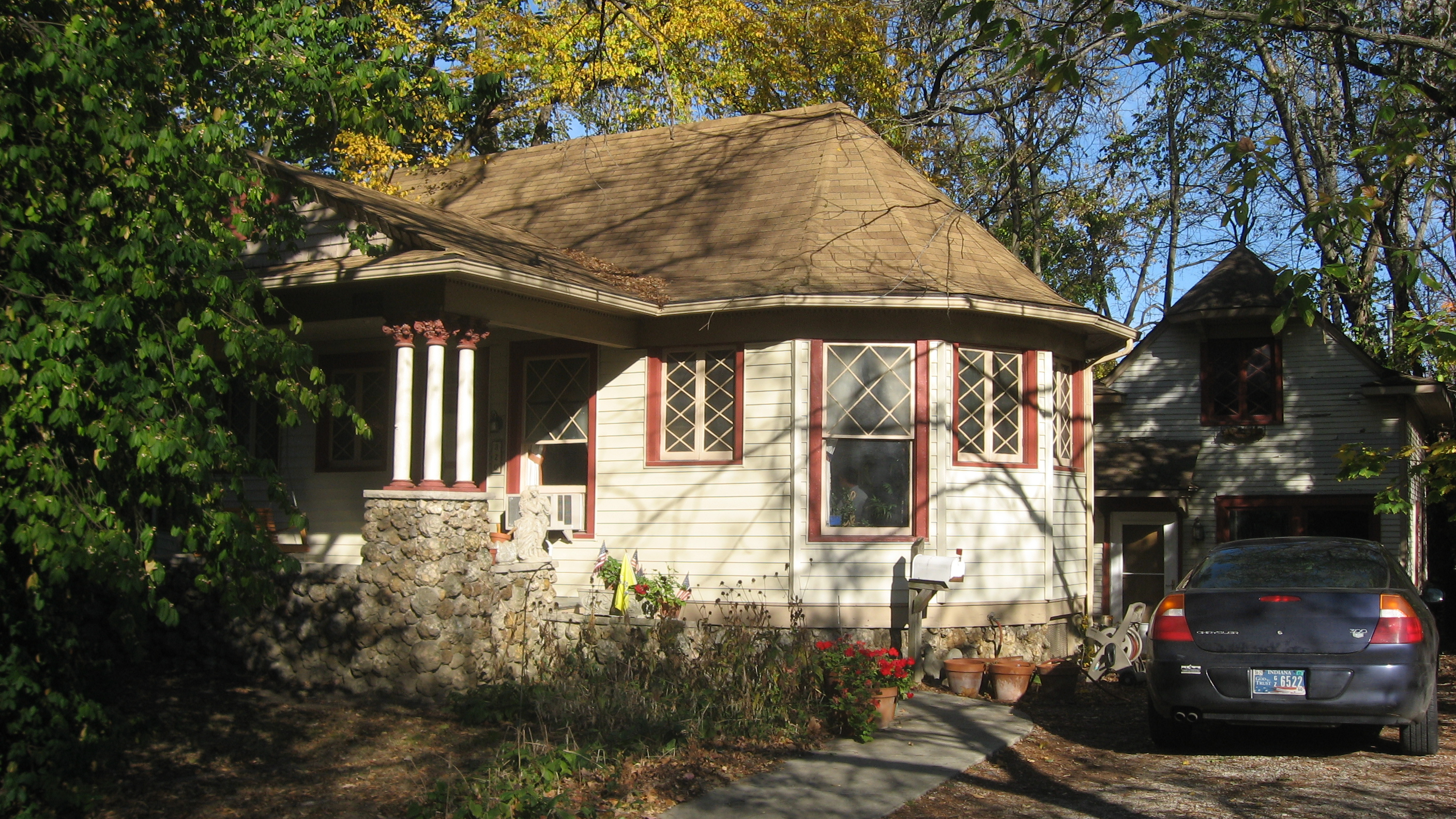 Front and southern side of the J.L. Nichols House and Studio, located at 820 N. College Avenue in Bloomington, Indiana, United States. Built in 1900 and since converted into a lawyer's office, it is listed on the National Register of Historic Places.